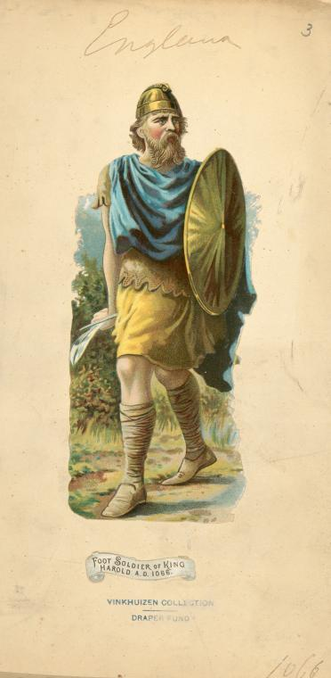 Foot soldier of King Harold in 1066. Drawing from Vinkhuijzen Collection of Military Costume Illustration.